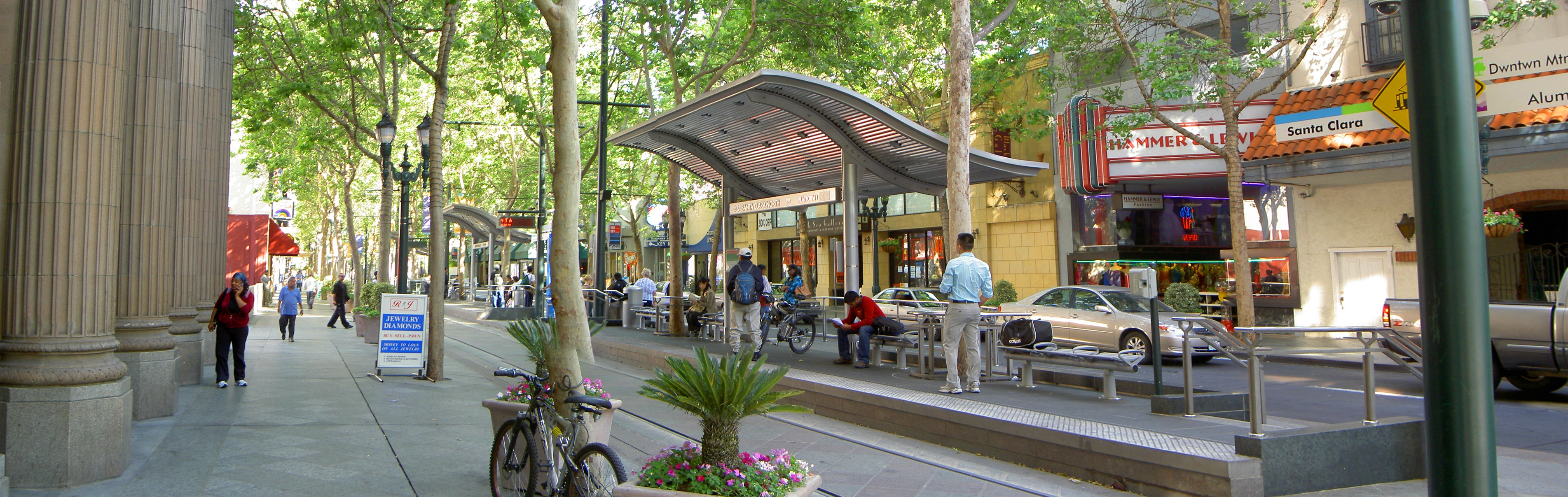 Downtown San Jose (Northbound) Santa Clara Light Rail Station (VTA) on First and Santa Clara streets.